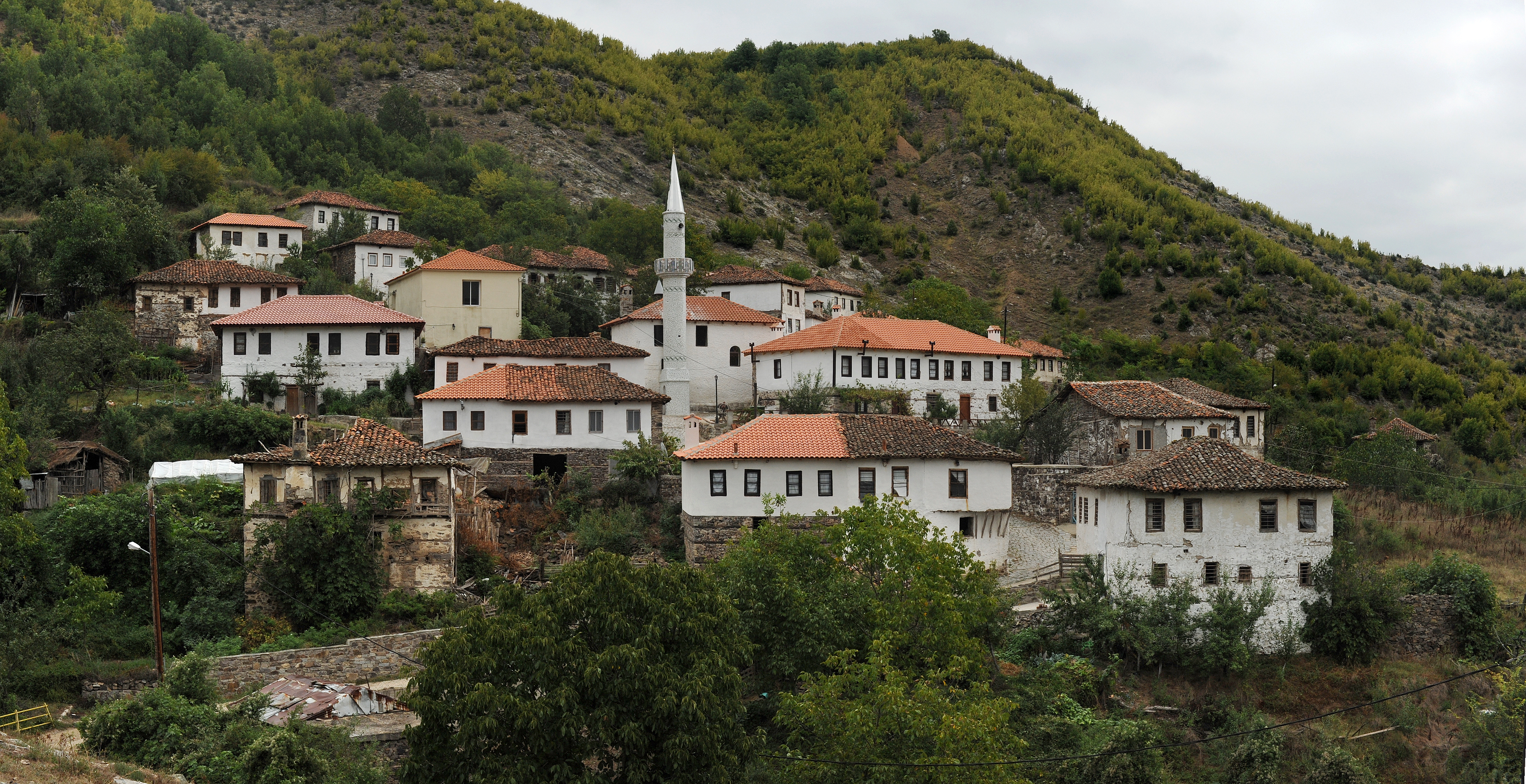 Kotani traditional village - close panorama, Xanthi Prefecture, Thrace, Greece.